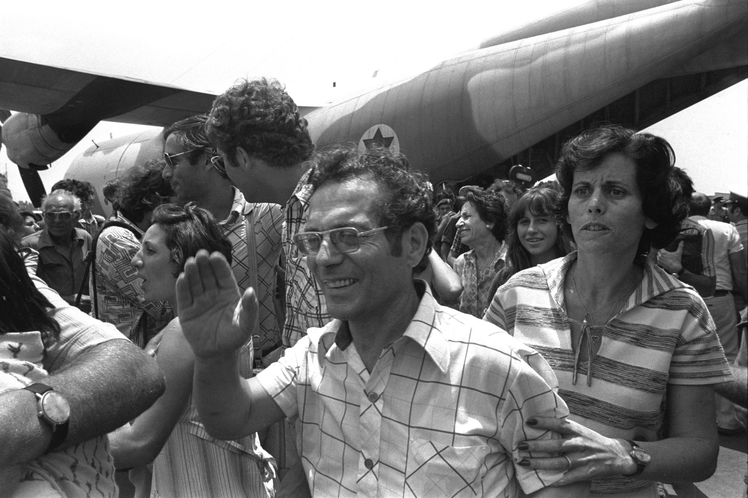 A joyous wave of the hand and a tense searching look by homecoming Air France hostages, who were rescued from Entebbe Airport.